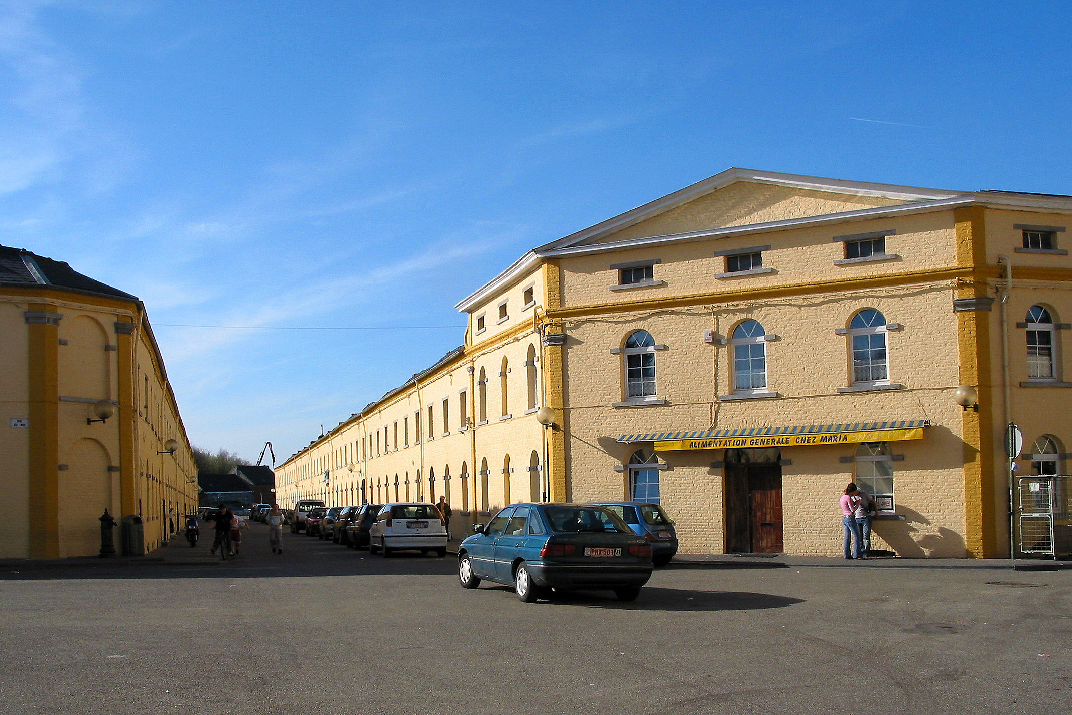 Houdeng-Aimeries (Belgium), rue du Couchant - Model village of « Bois-du-Luc » (1838-1853).